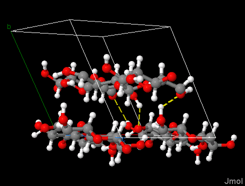 Crystal structure of Cellulose II (mercerized Cellulose), highlighting Hydrogen bridges between layers.